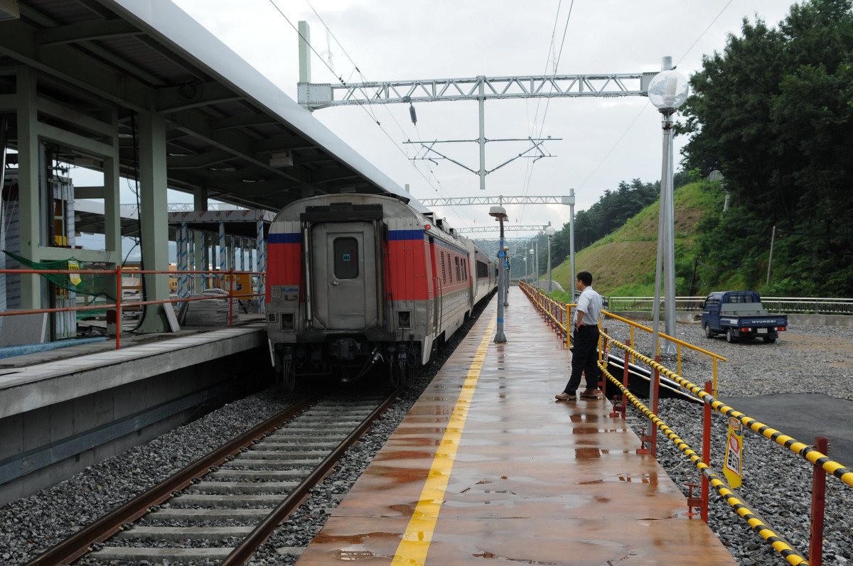 사릉역